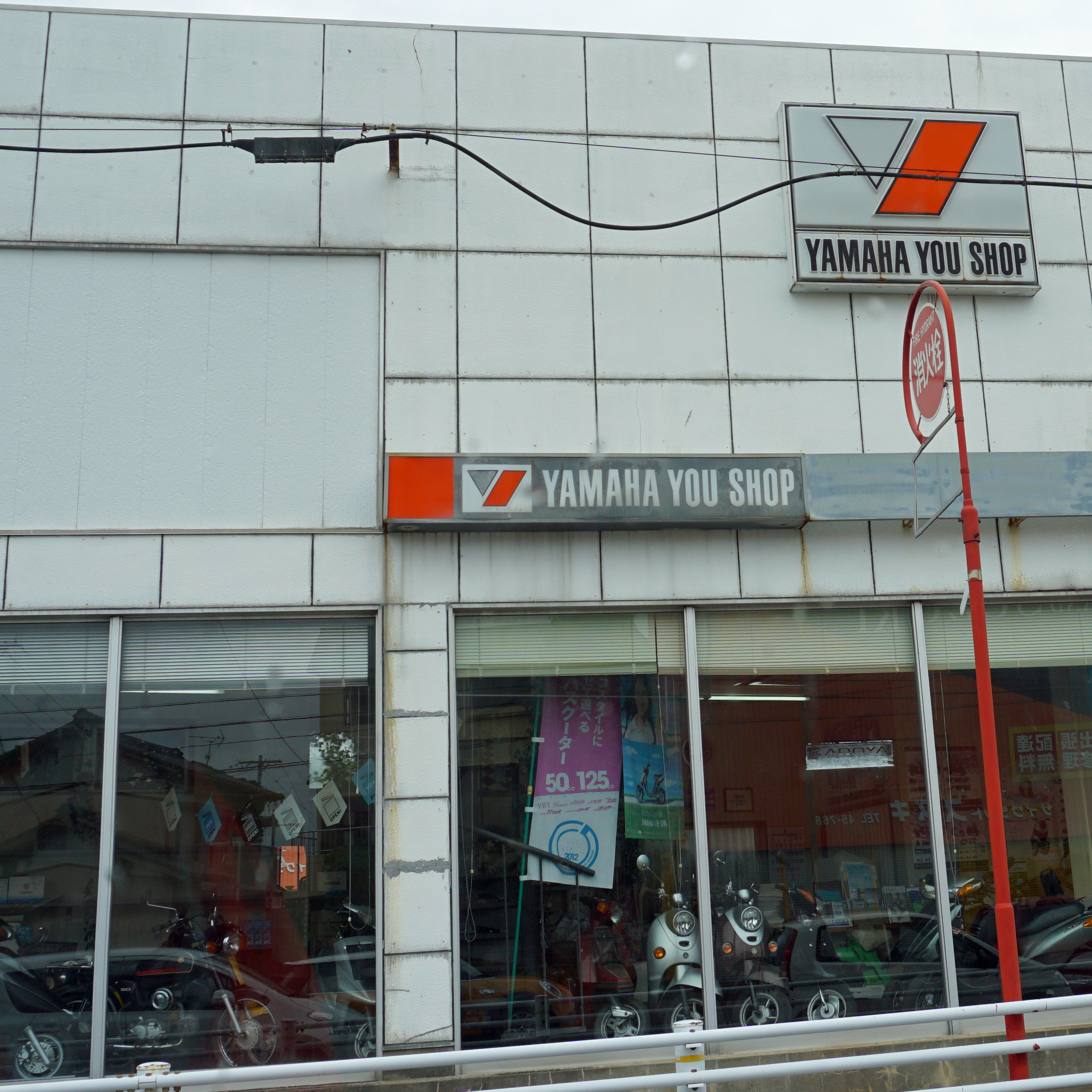 A Yamaha You Shop is official motorcycle dealer of Yamaha motors. It sells commuter motorcycles.